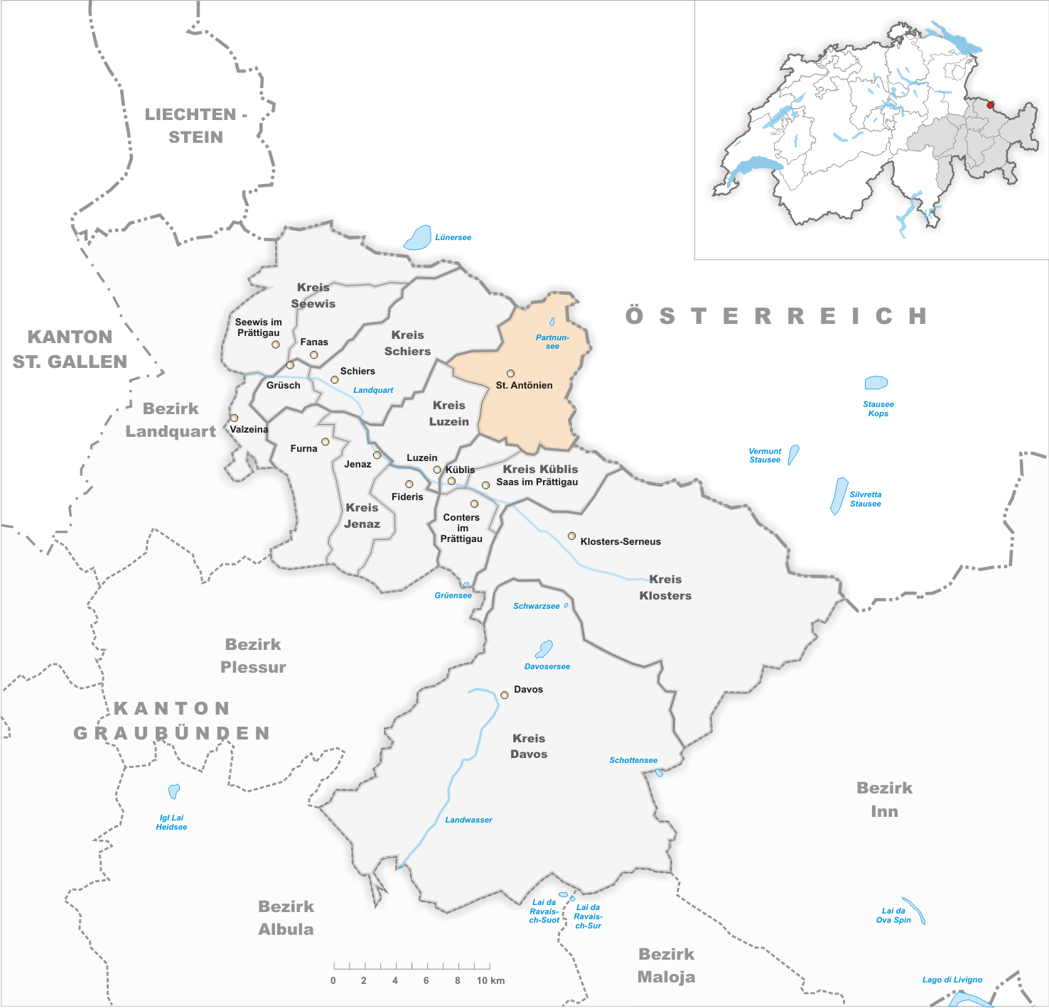 Municipality St. Antönien